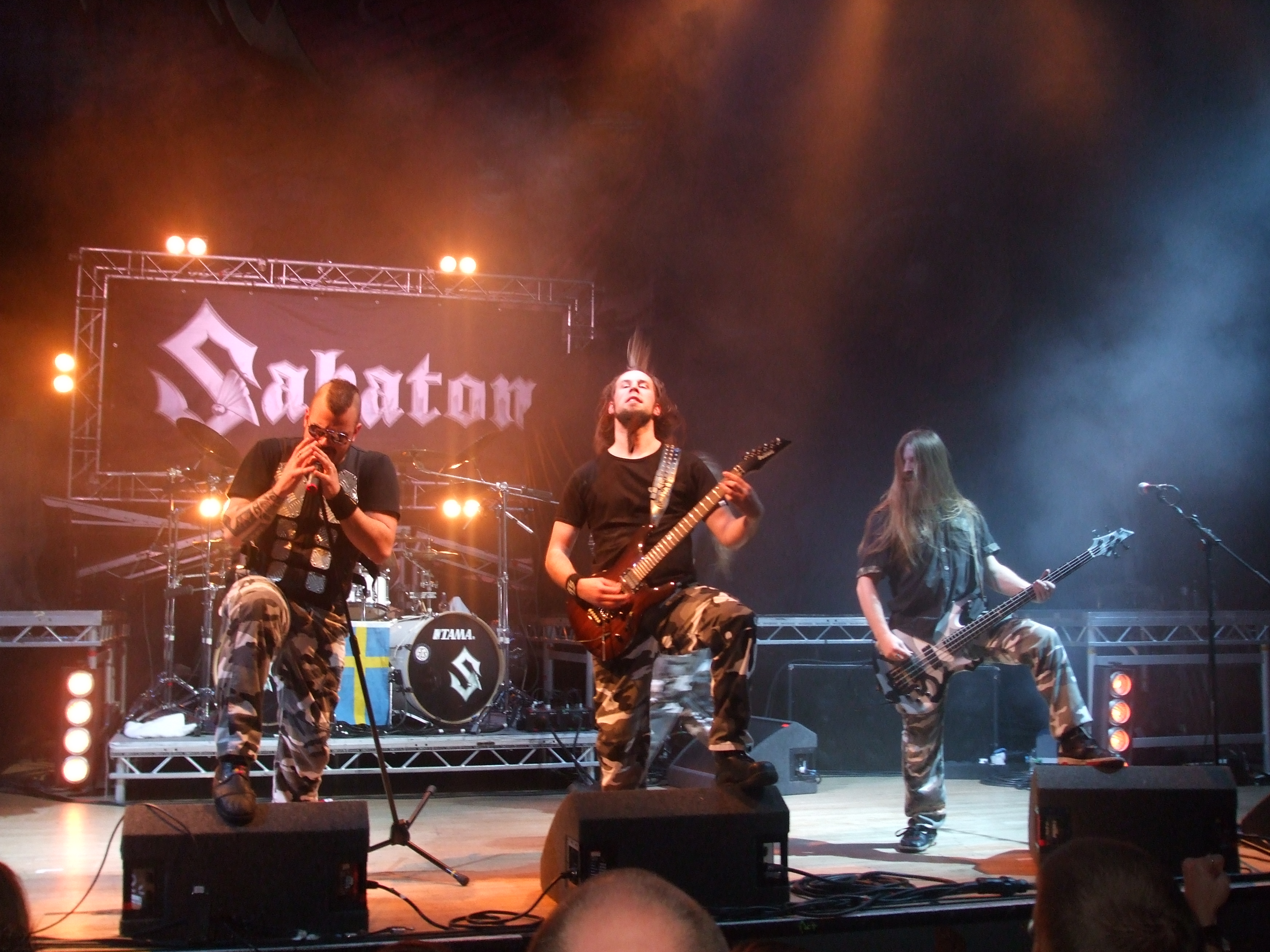 Sabaton performing at the Victoria Hall, Hanley on December 1st 2009.